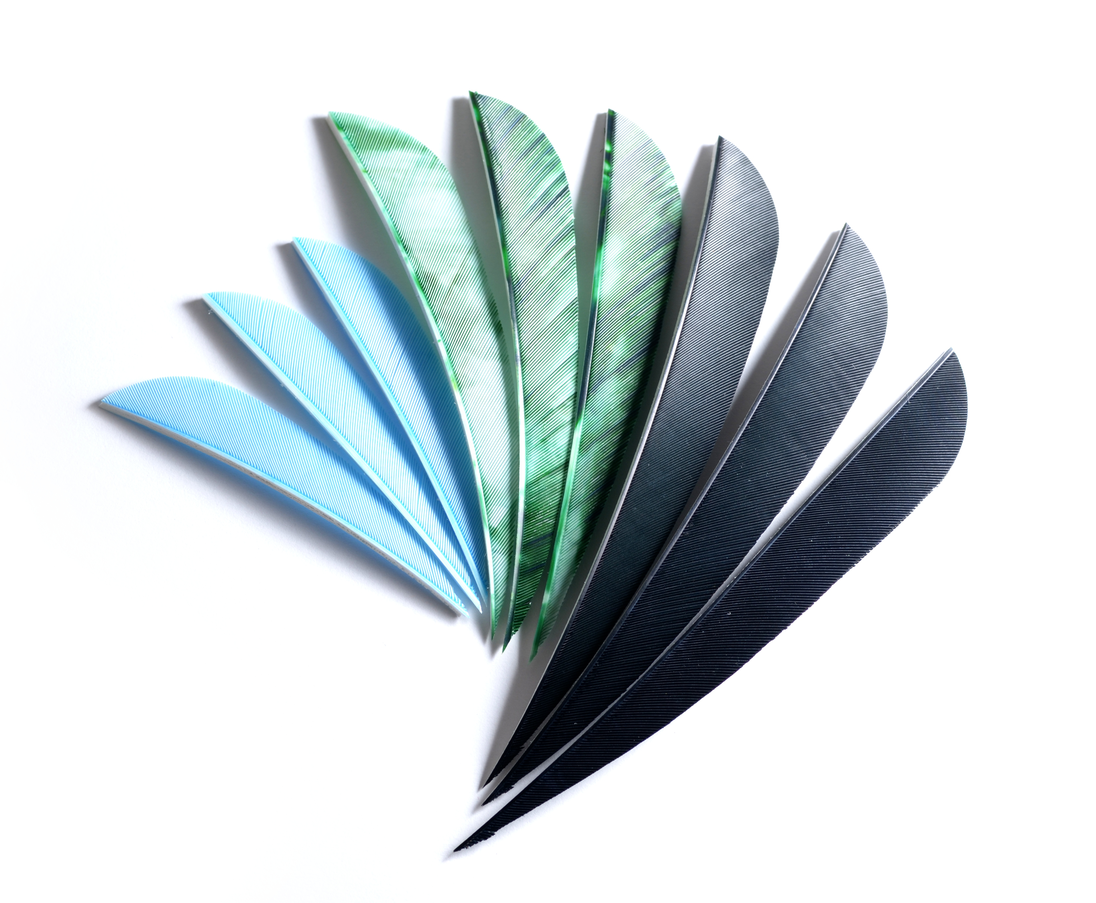 Parabolic turkey feathers with lengths 3", 4", and 5"